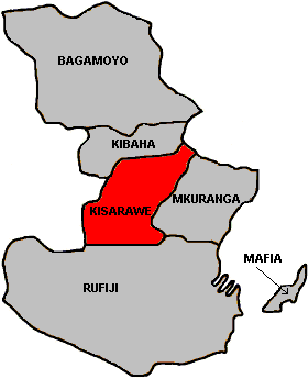 Kisarawe District